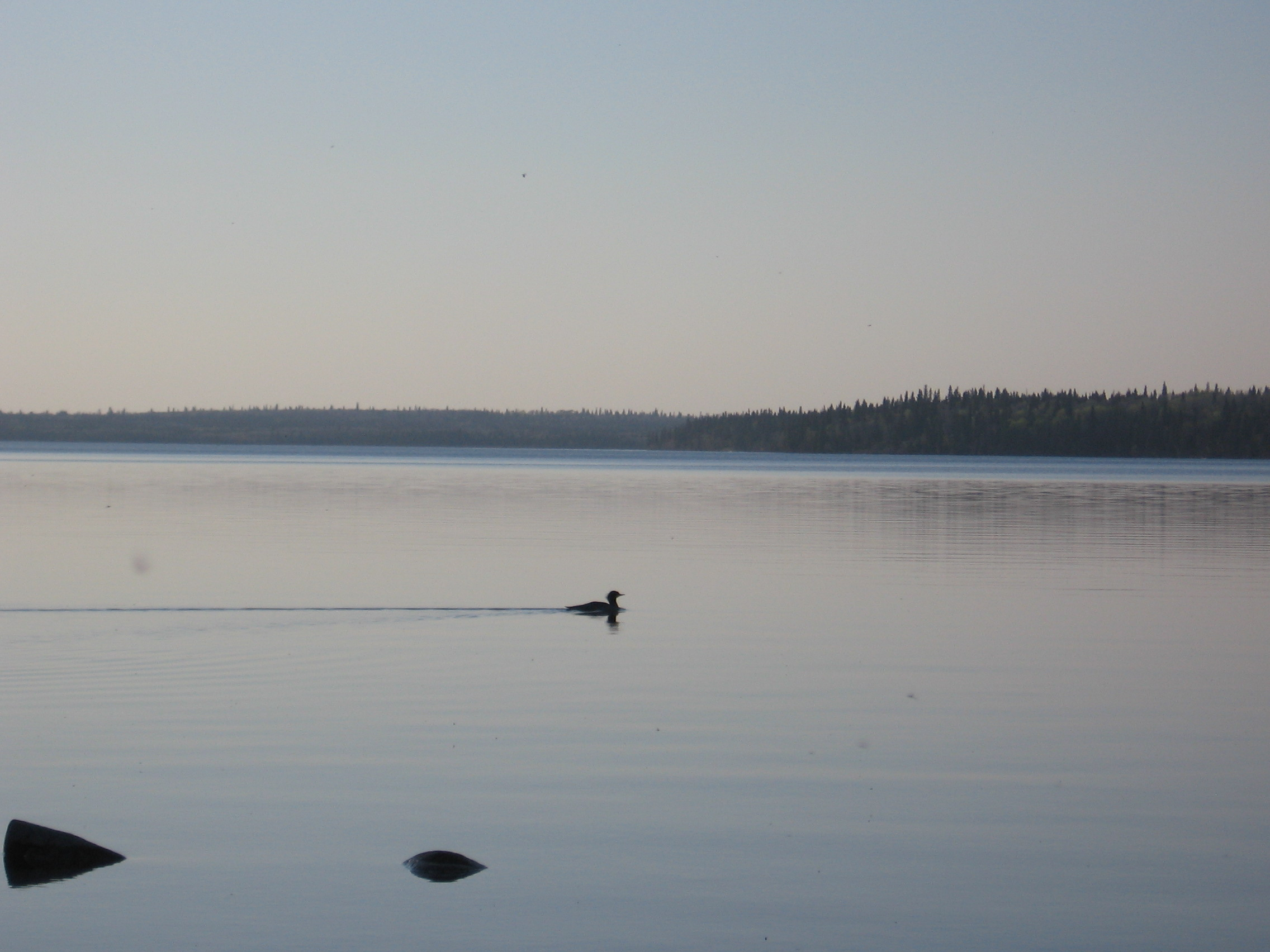 A duck swimming on Clear Lake